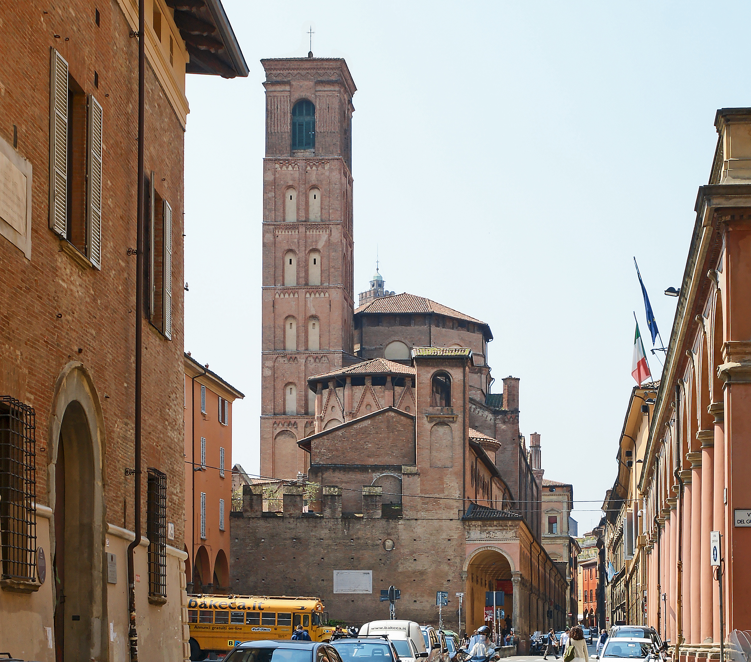 Basilica of San Giacomo Maggiore Bologna, aspe and bell tower.